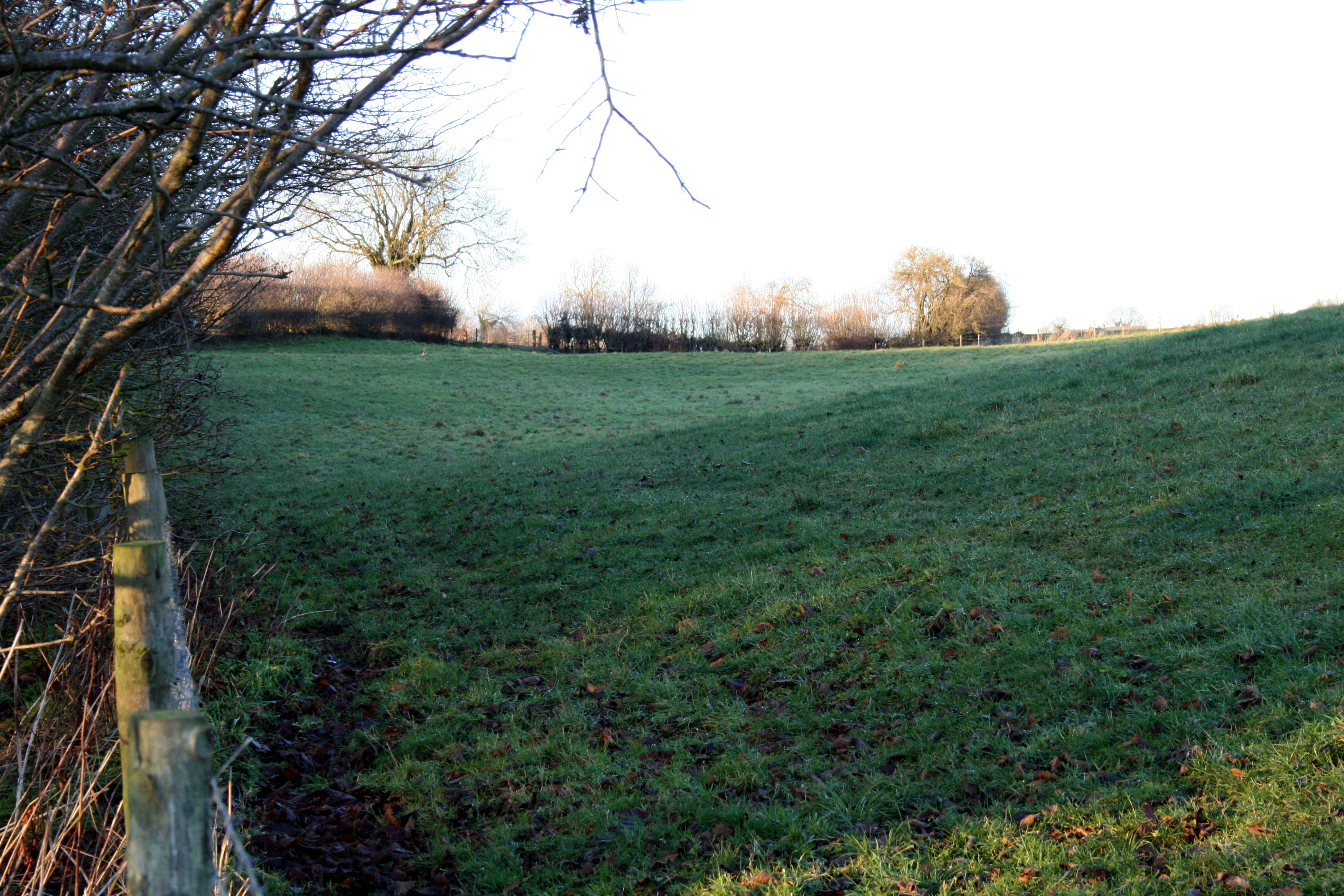 Hook Norton Ironstone Partnership tramway. General course of line to Hiatt's Pit.